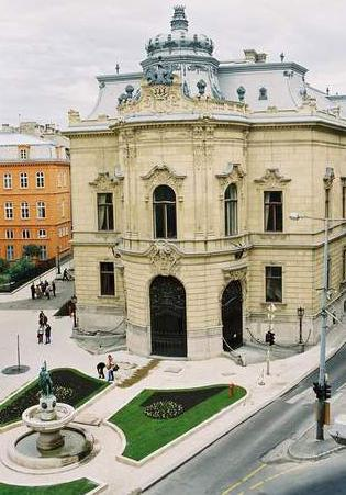 Photo of Wenkheim Palace